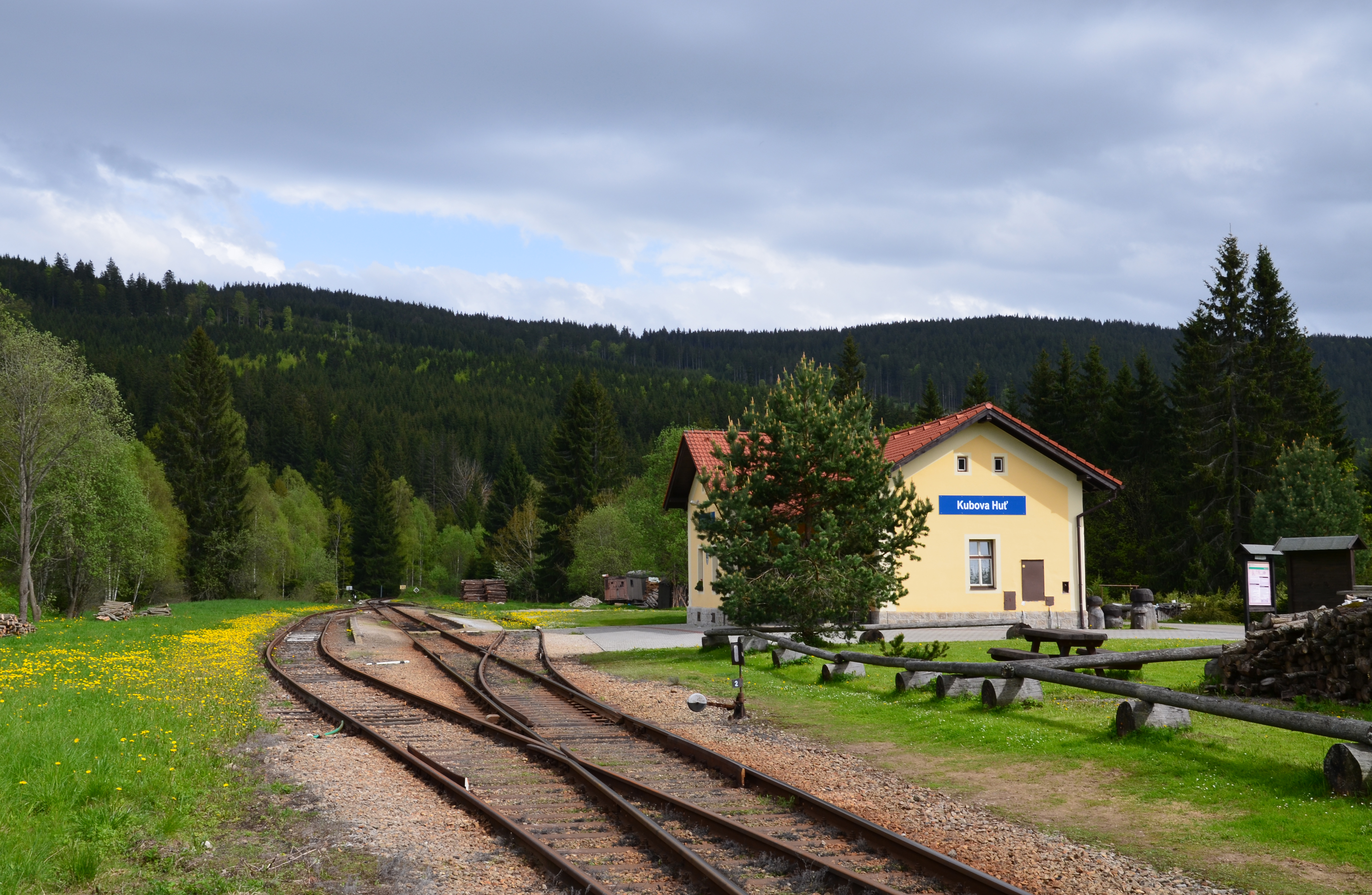 Train station Kubova Huť